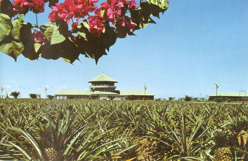 Pineapples at Nsele, Zaire in 1974